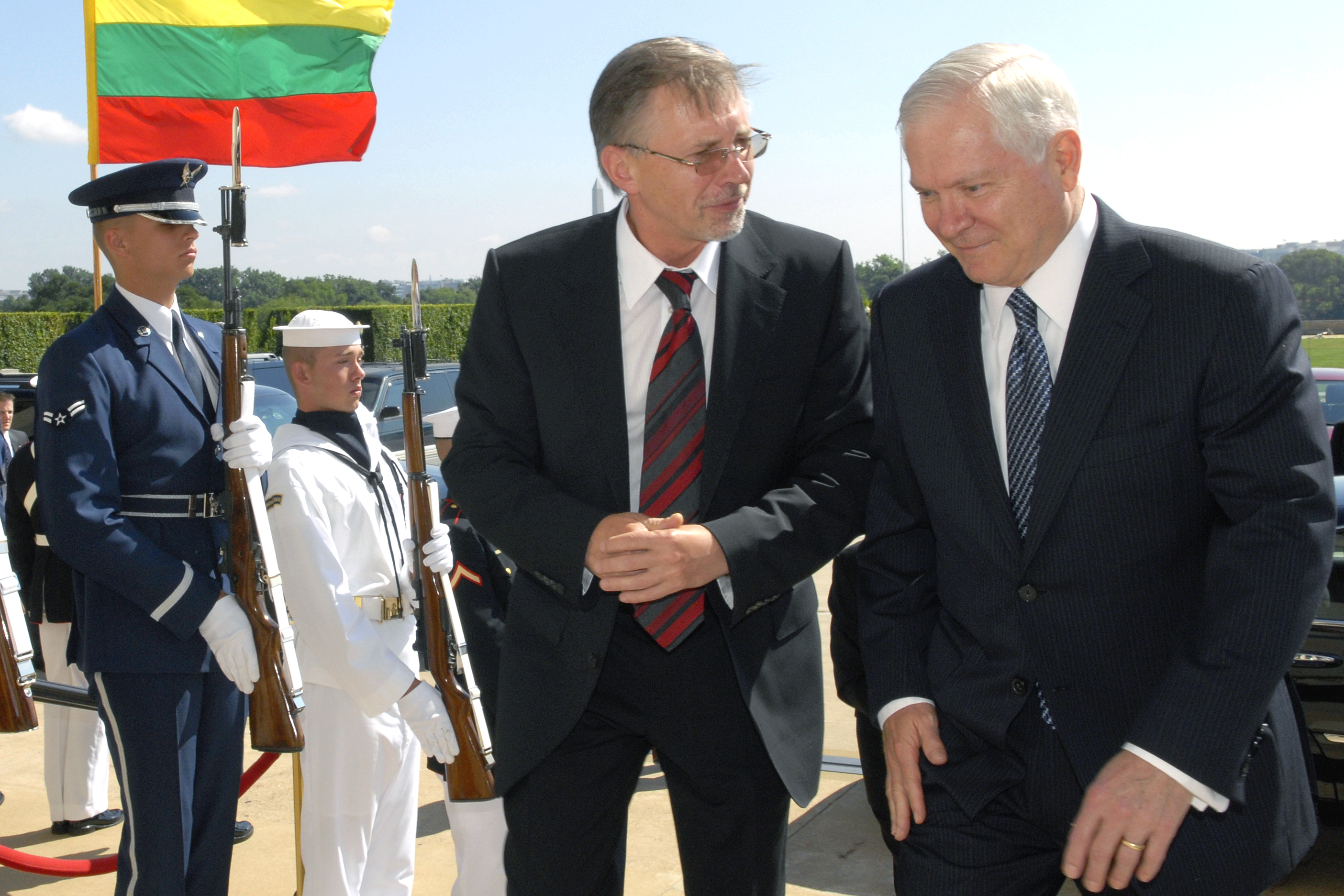 U.S. Defense Secretary Robert M. Gates, right, greets Lithuanian Prime Minister Gediminas Kirkilas at the Pentagon River Entrance prior to escorting him through an honor cordon to conduct a closed door discussion of bilateral issues, July 1, 2008. Defense Dept